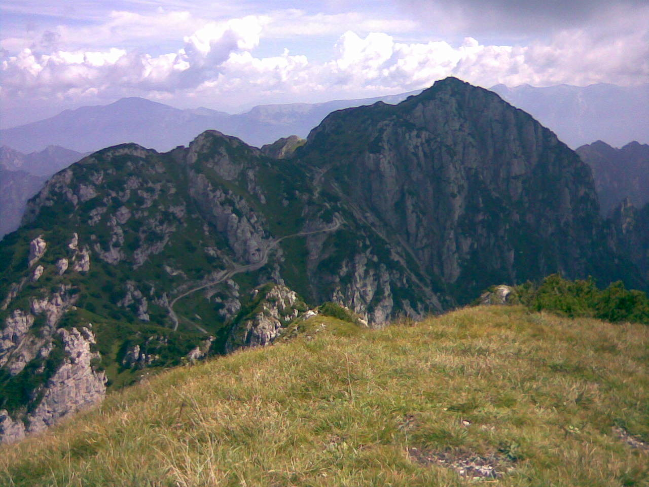 Monte Caplone 1976 da cima Tombea 1950m